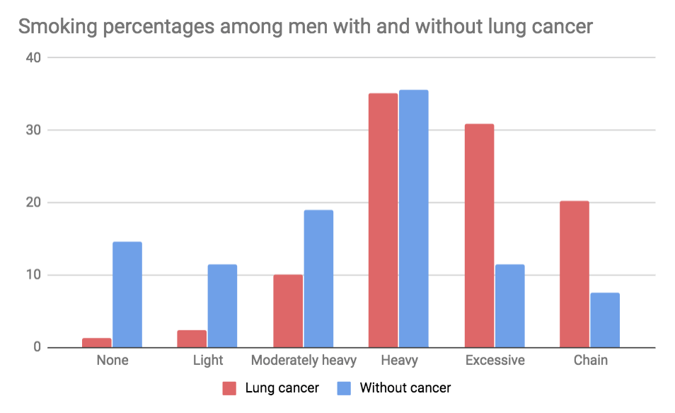 Reproduced from Figure 3 of Wynder and Graham's 1950 study